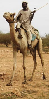 Original caption states, "Janjaweed are omnipresent. They are seen in marketplaces and within walking distance of refugee camps. They have terrorized black Africans in Darfur for more than a year."